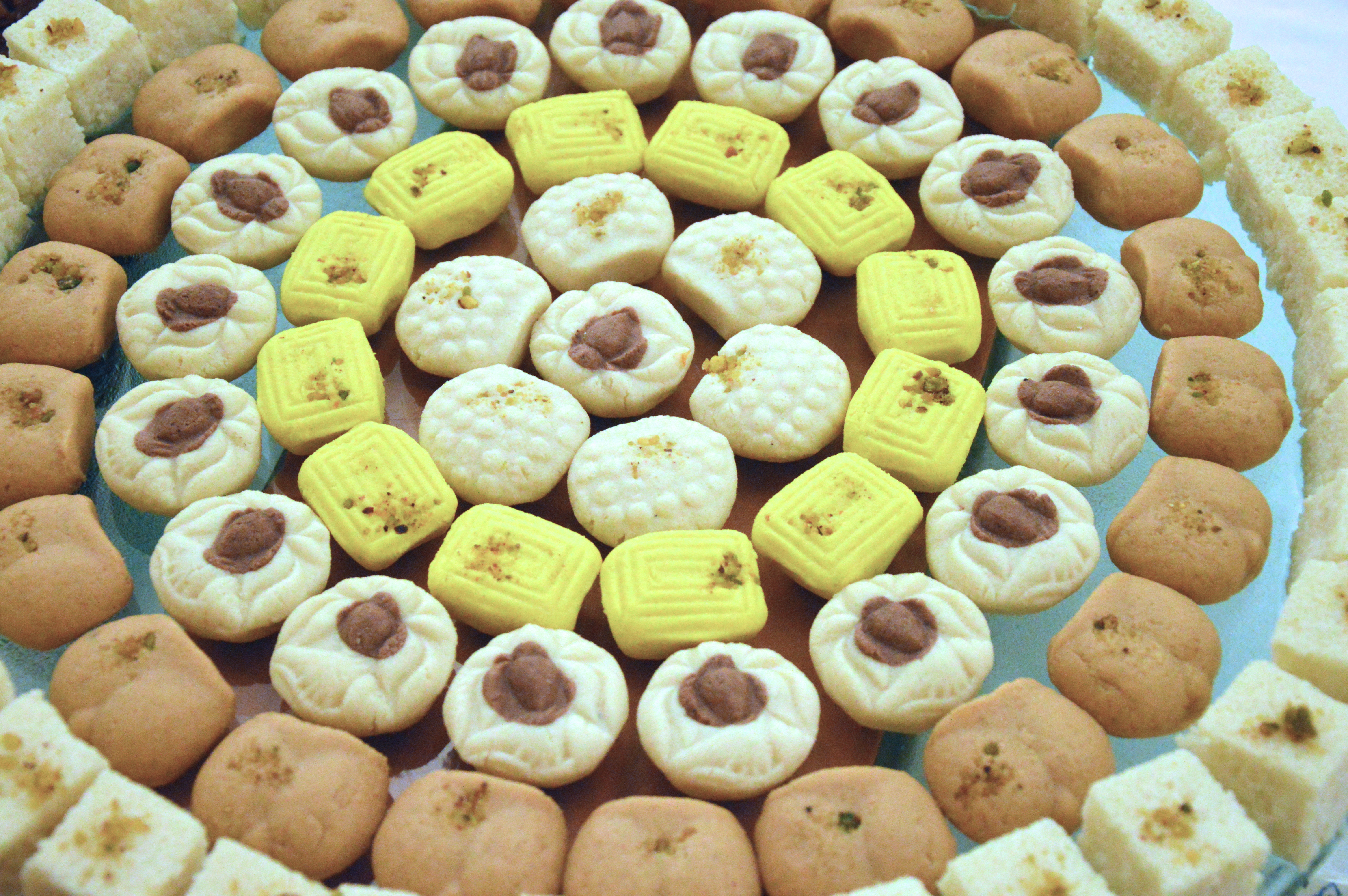 Photographed in Kolkata, India.